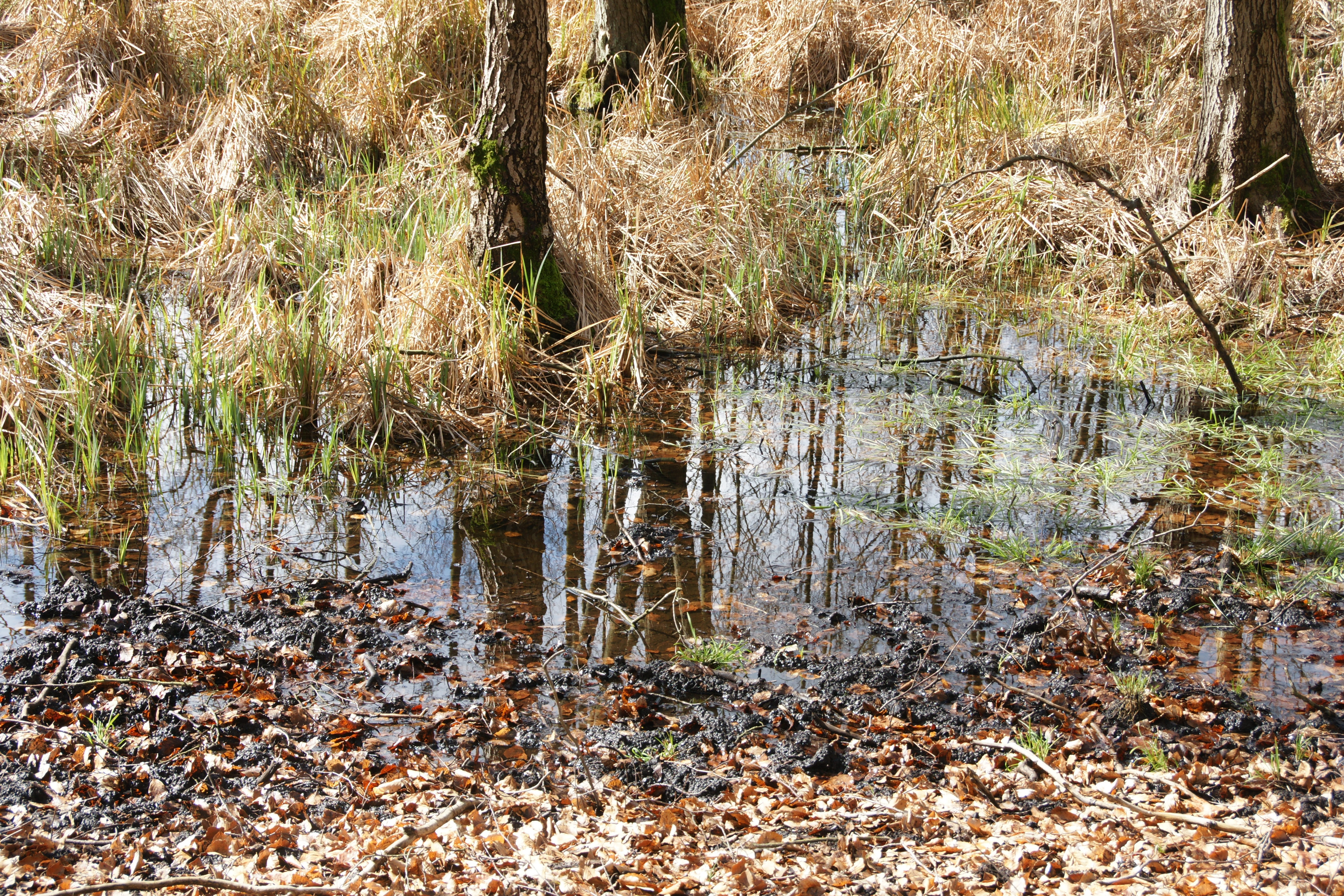 On the way around the Lake Stechlin a wetland (Mark Brandenburg)